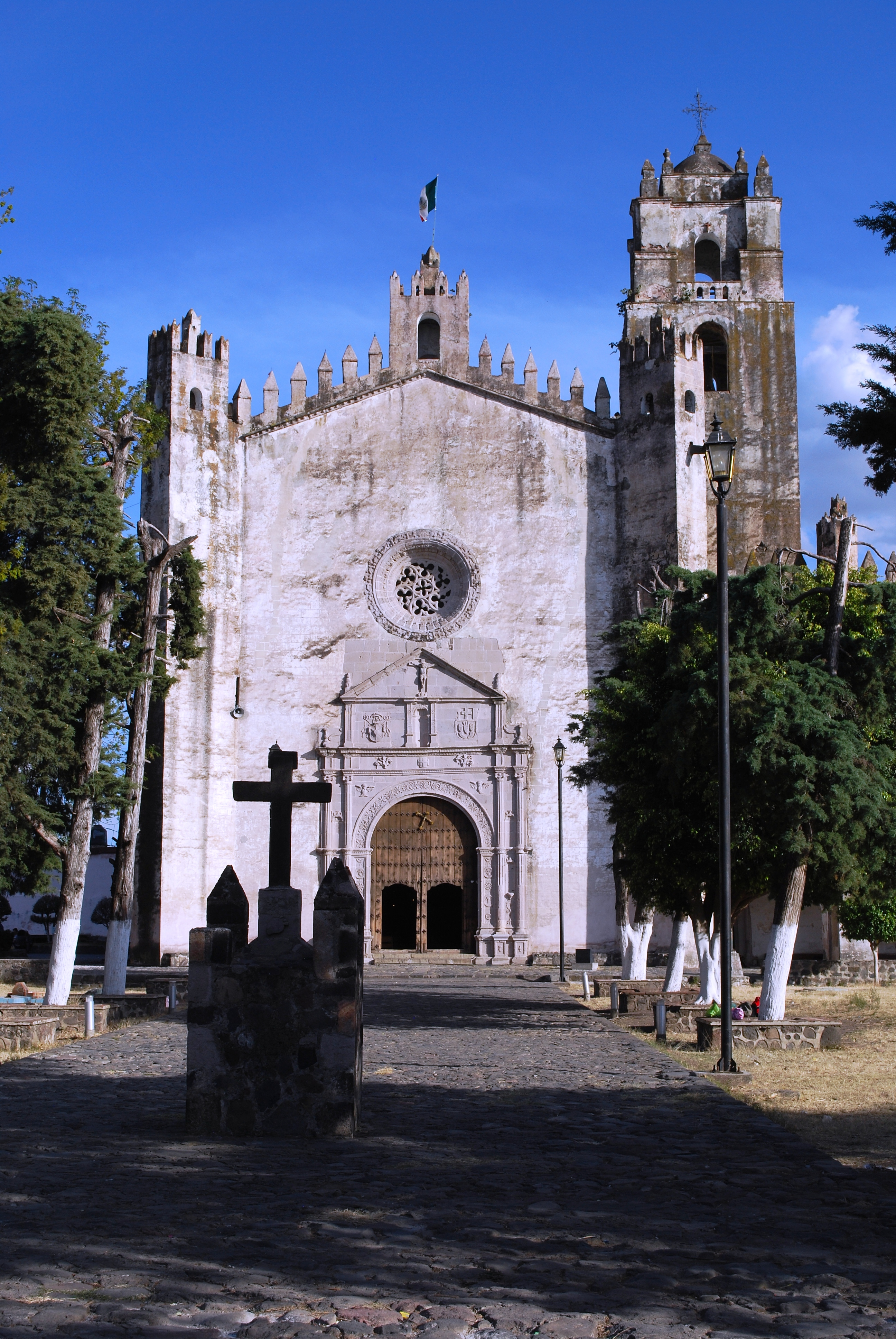 Facade of the church and former monastery of San Juan Bautista in Yecapixtla, Morelos, Mexico